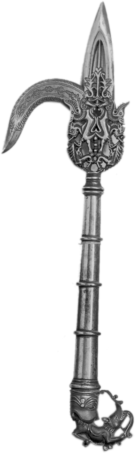 Elephant trainers used goads in this traditional shape to direct their animals.